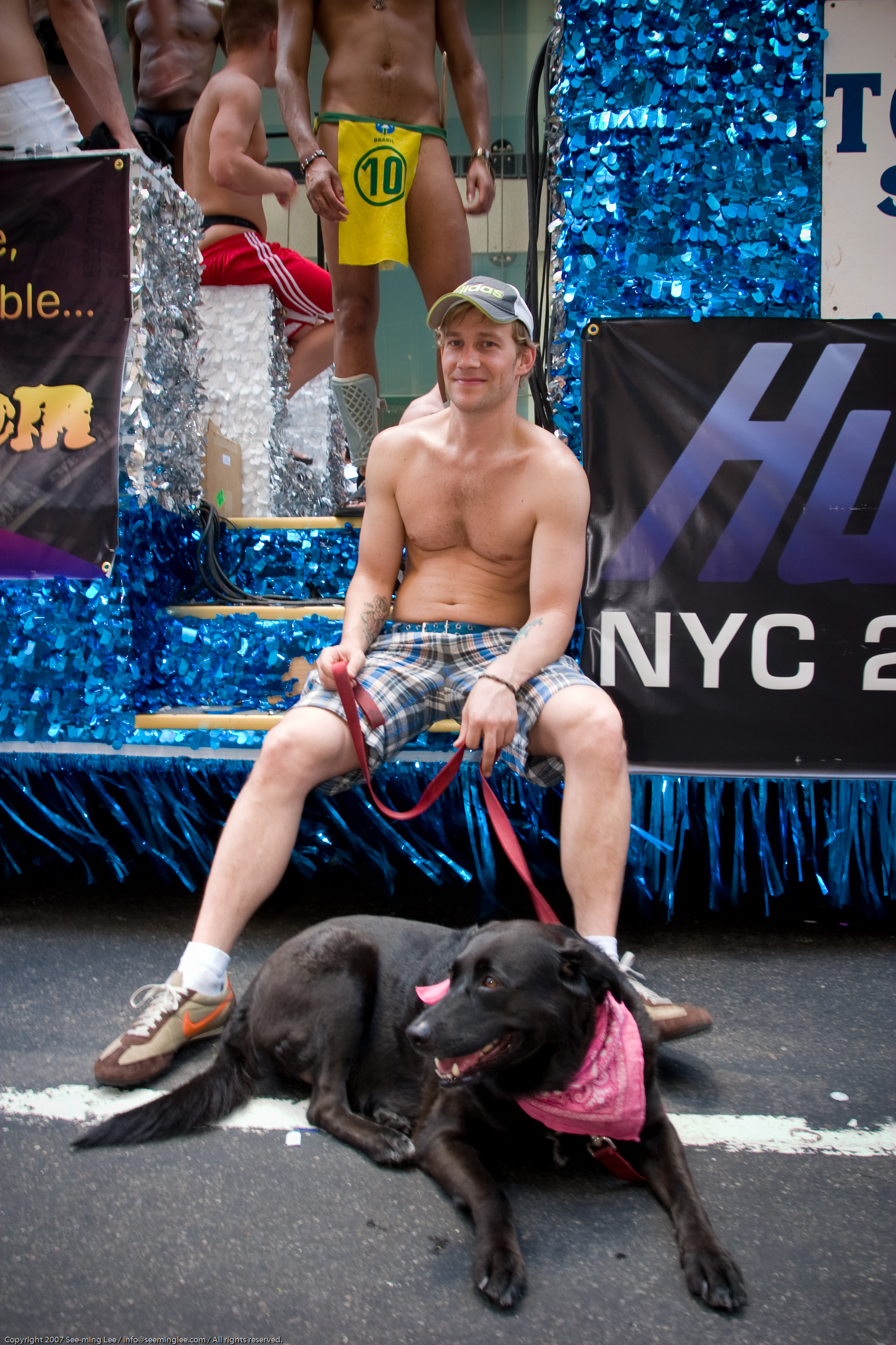 Photograph taken at the Gay Pride Parade in New York on Sunday, June 24, 2007, Walking down from 52nd Street + 6th Avenue to West Side Highway + Christopher Street. Gay Pride New York 2007 / SML Flickr Sets 200 Highlights / Gay Pride New York 2007 (Set) 200 Most Interesting / Gay Pride New York 2007 (Set) Annual Faerie + Church Ladies for Choice Drag March (Set) Coney Island Mermaid Parade 2007 (Set) Folsom Street East 2007 (Set) Gay Pride Parade New York 2007 (Set) Humanity / Portraits from Gay Pride New York 2007 (Set) Radical Faeries Drum Ritual / Gay Pride New York 2007 (Set) Gay Pride New York 2007 / SML Flickr Collection Gay Pride New York 2007 / SML (Collection) Content Syndication You may syndicate this content for non-commercial purposes as long as you attribute credits to me. Commercial usage will be considered on a case-by-case basis. Model Credits If you are the model of the photograph, email me at mailto: so I can give you proper credits. SML Copyright Notice Copyright 2007 ( All rights reserved.